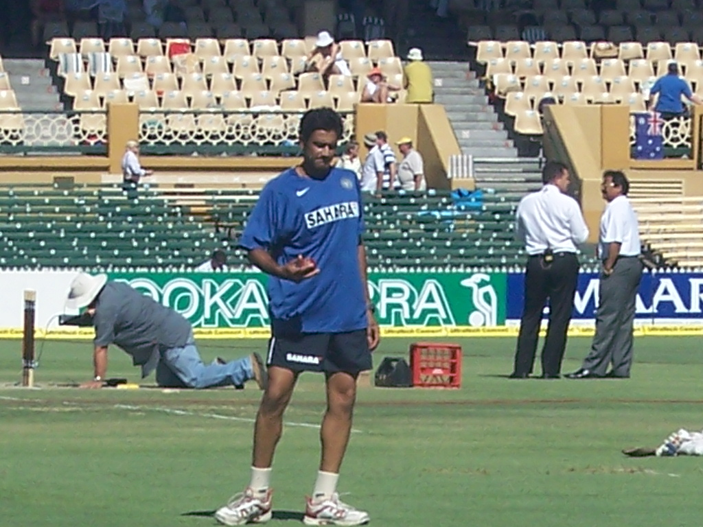 Anil Kumble, Indian cricketer. 4 Test series vs Australia at Adelaide Oval